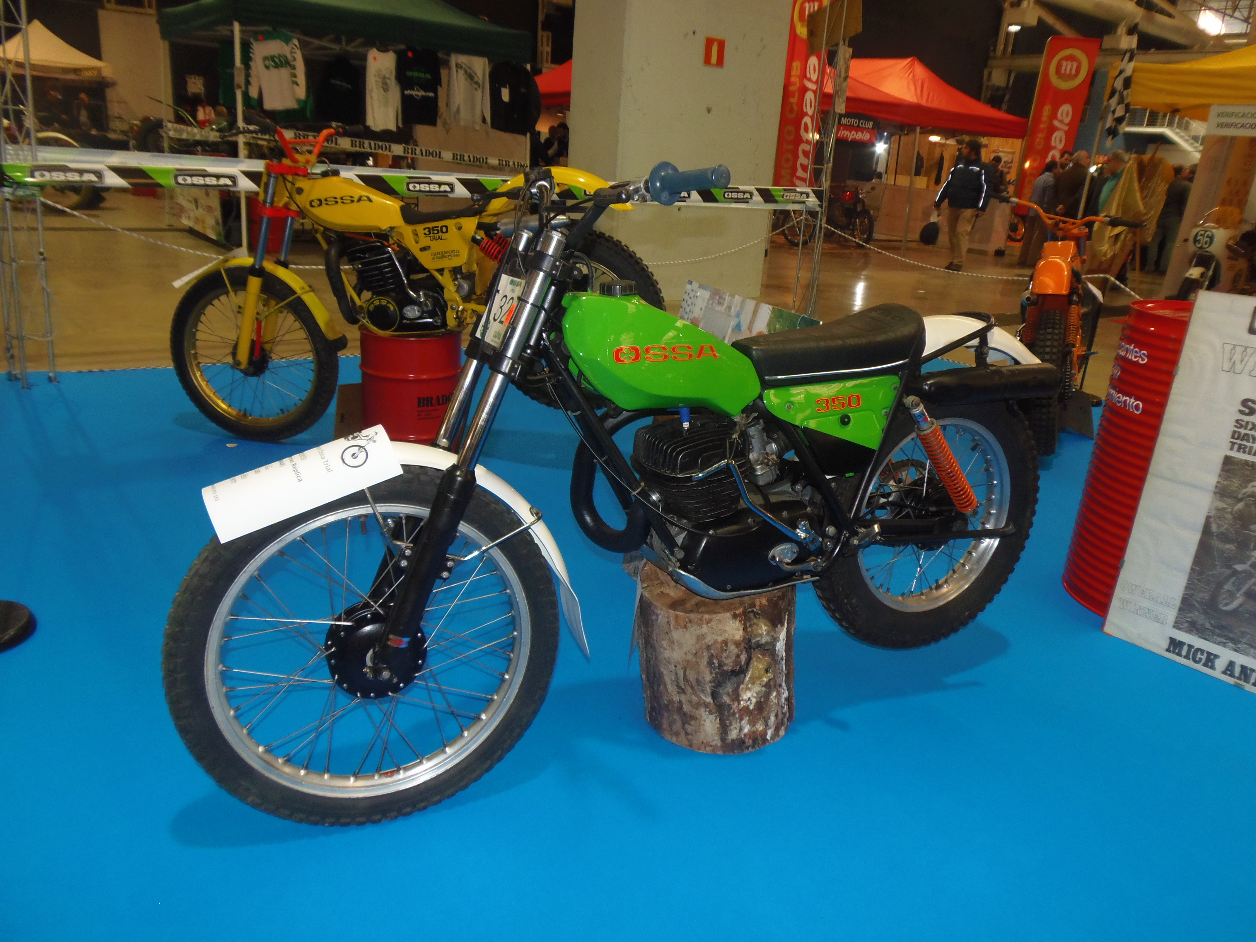 OSSA TR 350 1977 "Green"